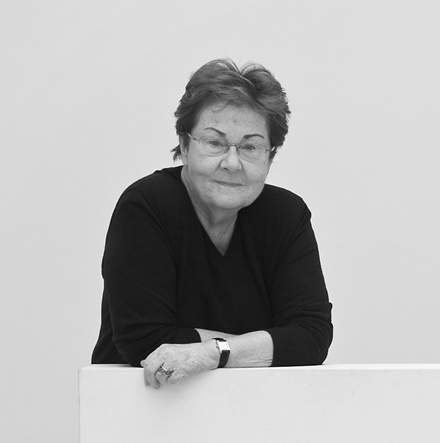 Helga de Alvear, by Luis Asín